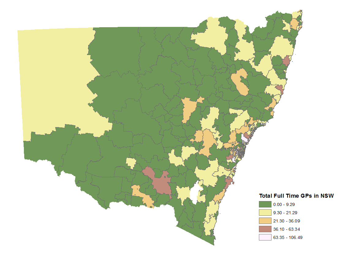 Primary Care service areas are optimal geographies for targeting primary care policies and resources